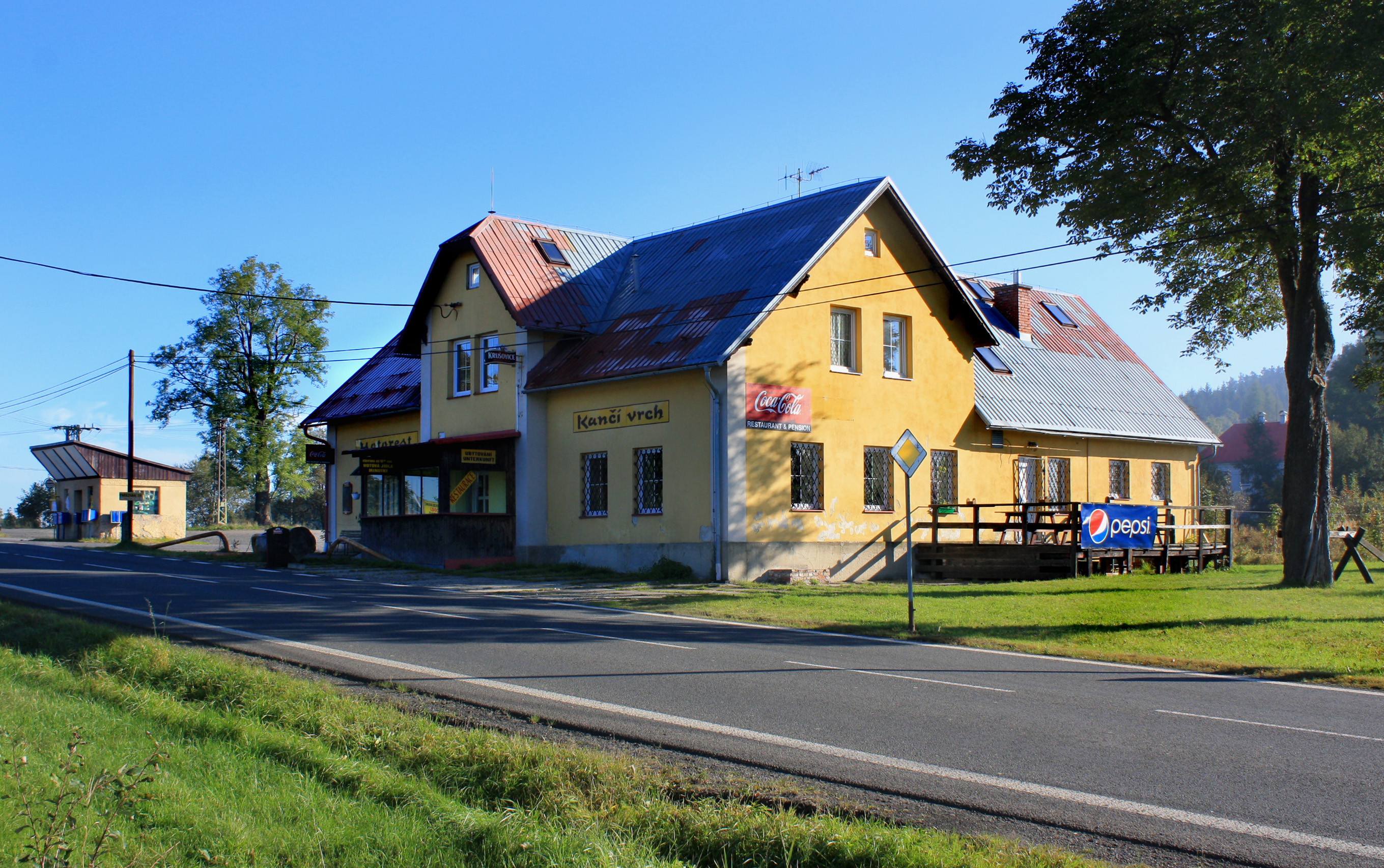 Restaurant and road No 13 in Albrechtice u Frýdlantu, part of Frýdlant, Czech Republic